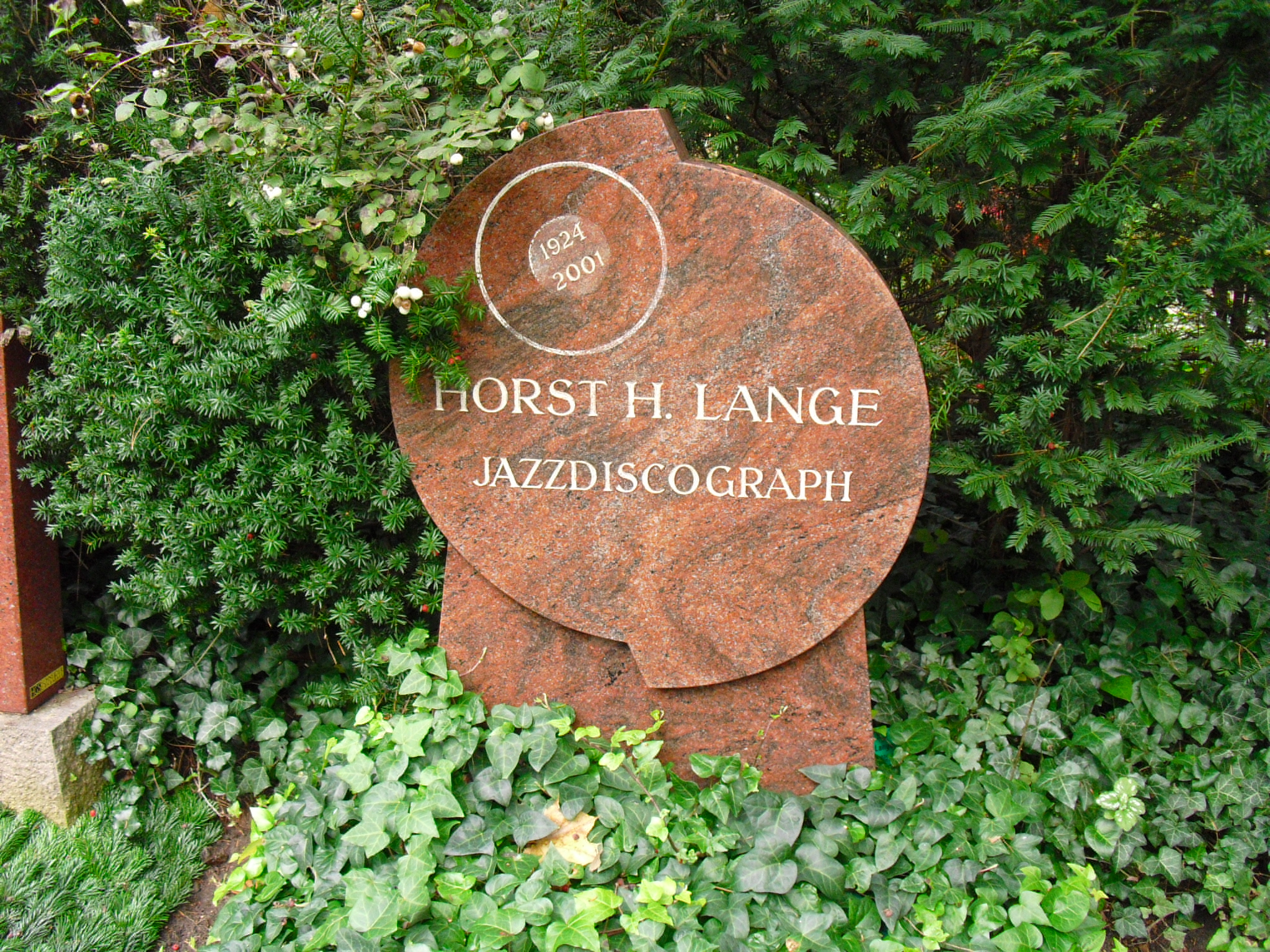 Grave of jazz collector and jazz encyclopedist Horst H. Lange in Friedhof Heerstraße in Berlin-Westend